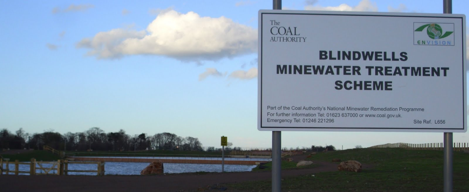 The Minewater Treatment Scheme at Blindwells, soon after it was first established and before the reedbeds had developed (photo dated 3 April 2011)